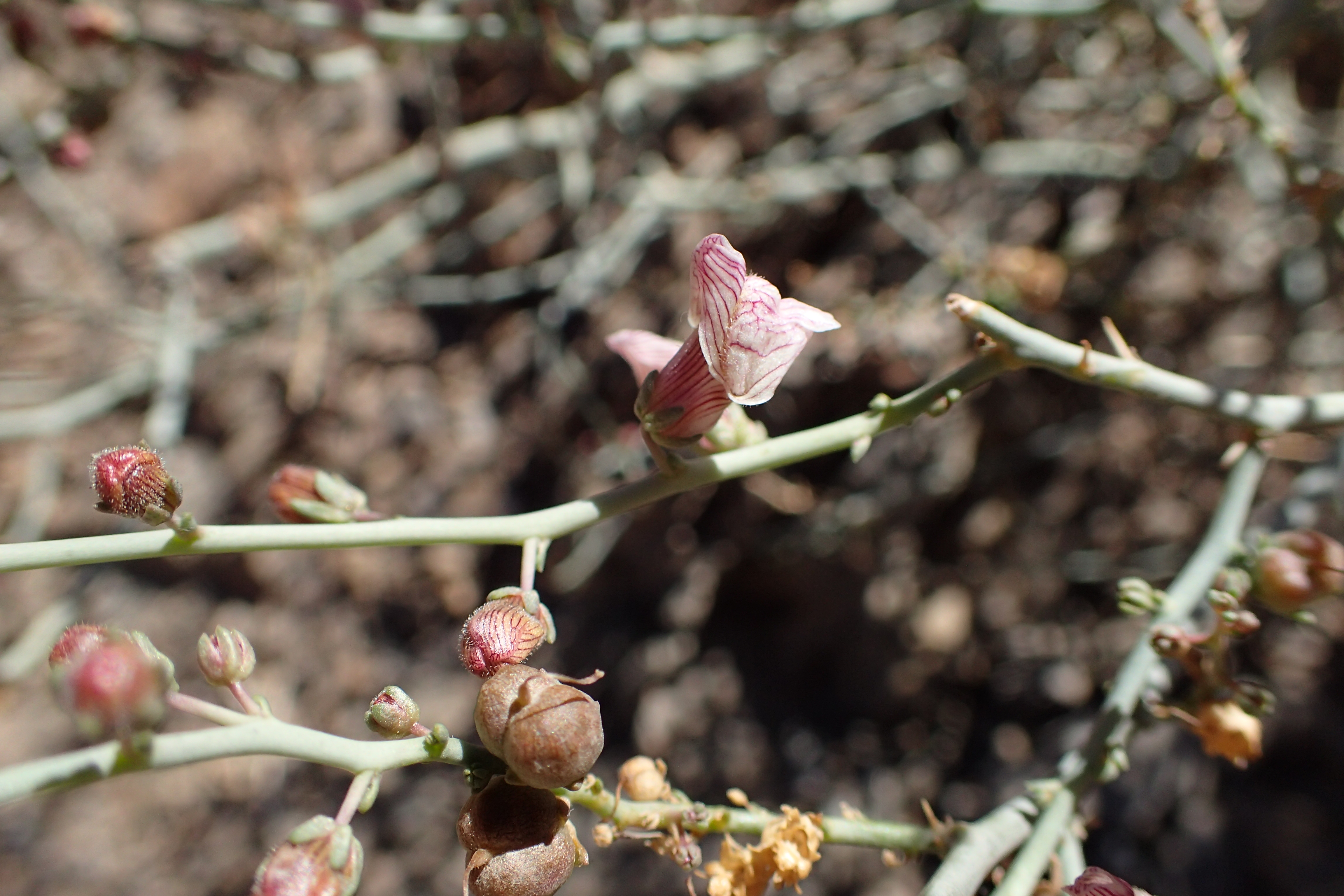 Acanthorrhinum ramosissimum in Iflilte (Drâa-Tafilalet, Morocco)